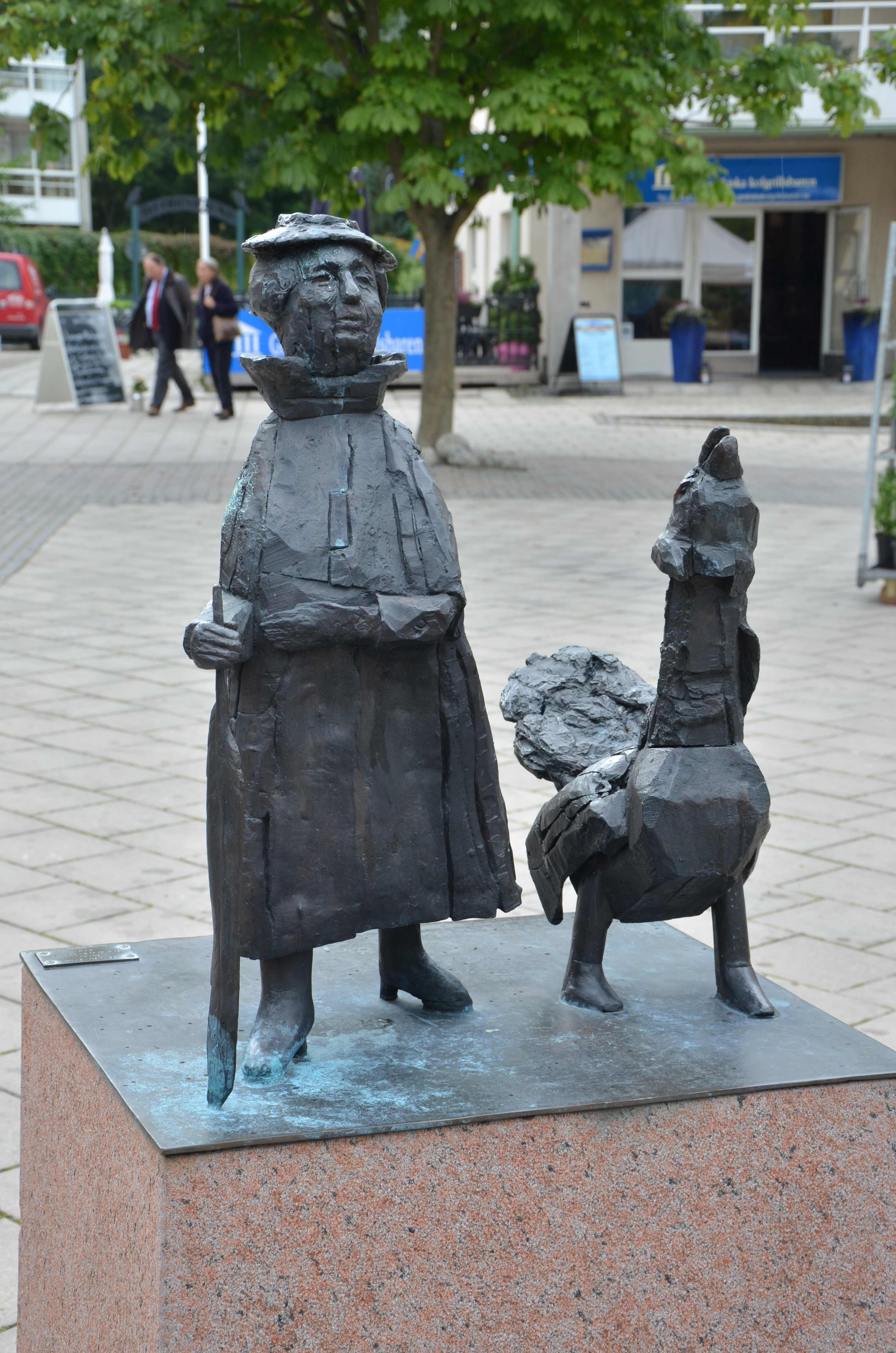 Torsten Renqvists Elsa Beskow med tjäder, brons, Elsa Beskows torg, Djursholm